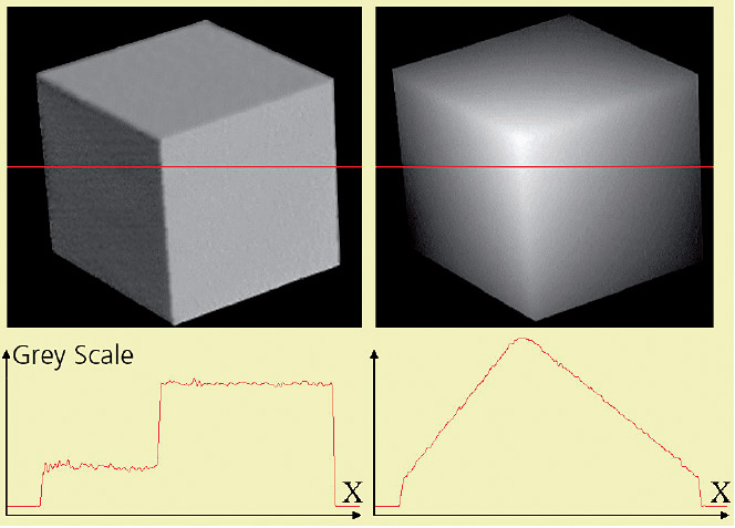 shadings on cube